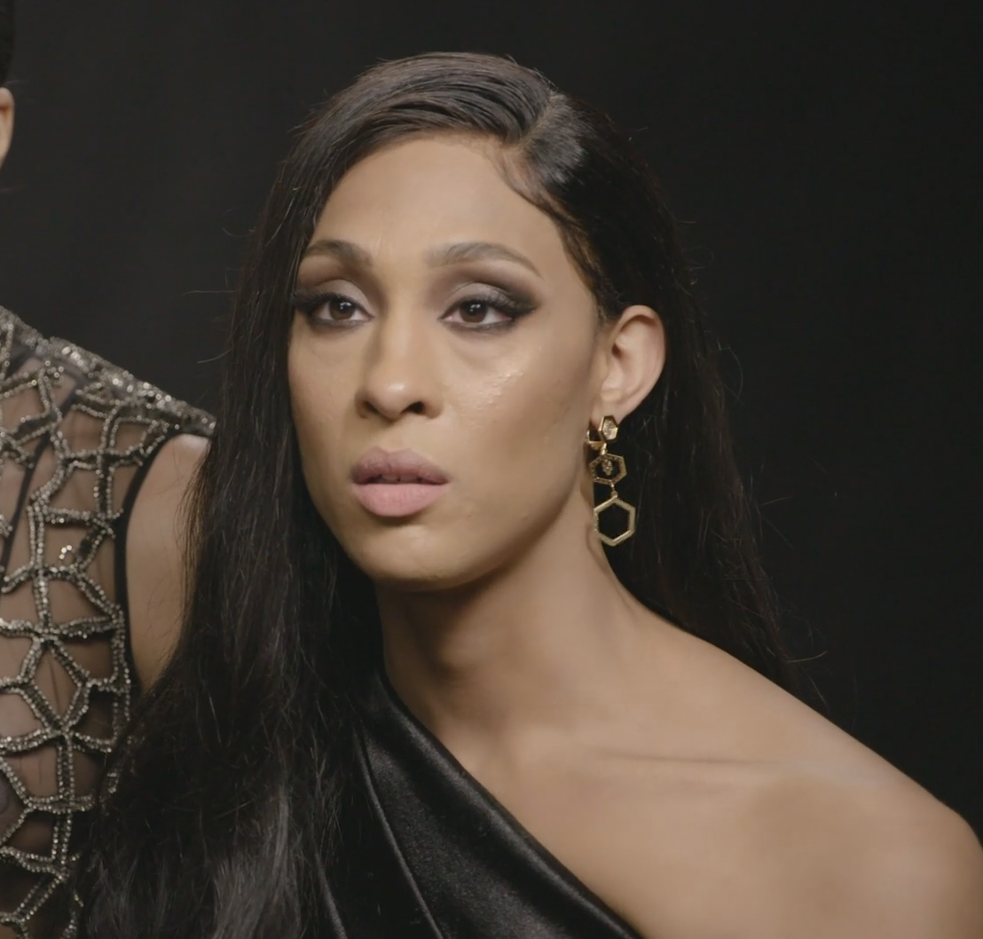 Just four short years ago, "Pose" was a program that executives, studios and networks weren't interested in producing, according to Steven Canals, co-creator, in this Peabody Conversation. Joined by writer/producer Our Lady J and cast members Indya Moore and Mj Rodgriquez, the team discusses why the groundbreaking program strikes a chord. Peabody Awards honored the first season of the FX series for "doing as much important representational work and storytelling in its quieter moments as on the ballroom floor."